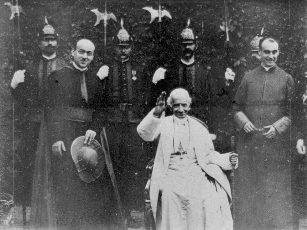 Pope Leo XIII with a group of colaborators.